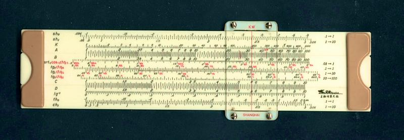 A Shanghai slide rule